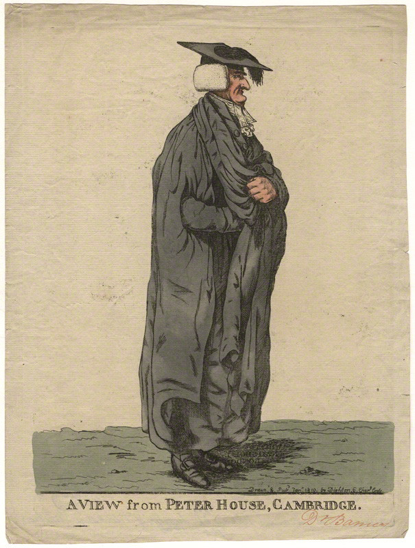 Francis Barnes ('A view from Peter House, Cambridge') by and published by Robert Dighton hand-coloured etching, published January 1810